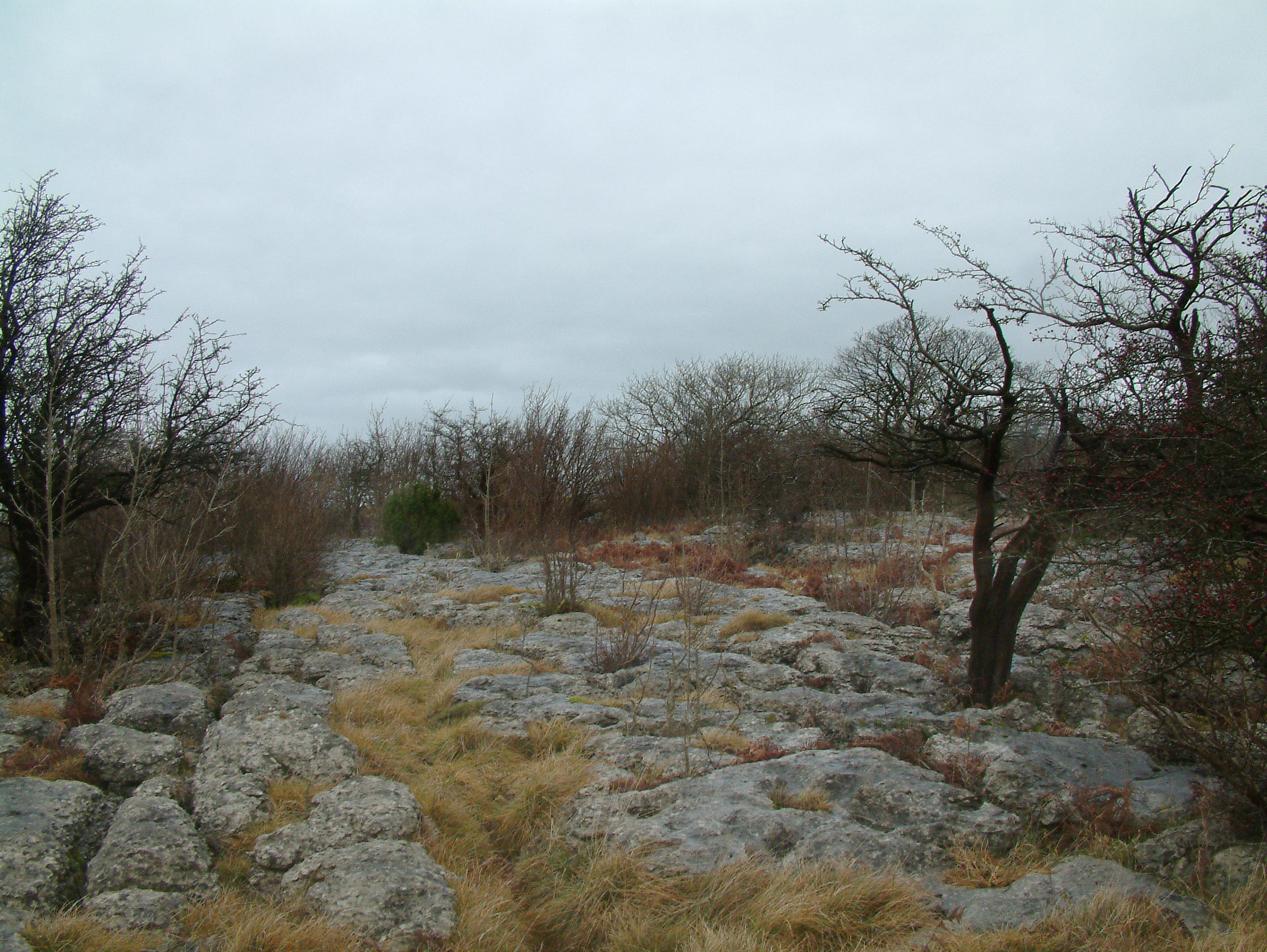 Limestone pavement on Hutton Roof Crags. Photograph by Stephen Dawson, 30 December 2004.